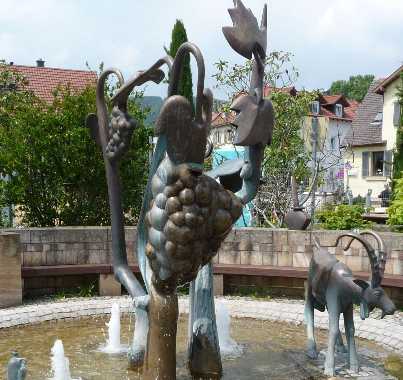 Brauchtumsbrunnen Deidesheim